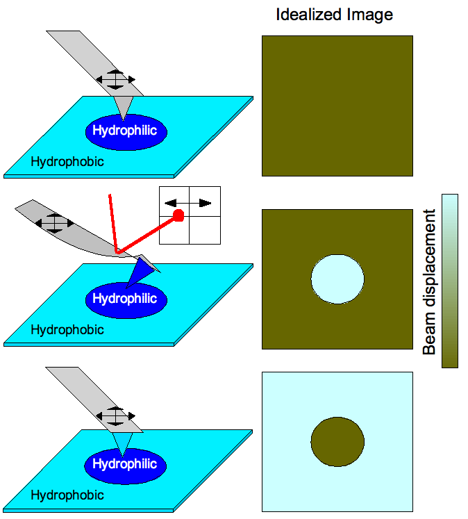 CFM Figure 3